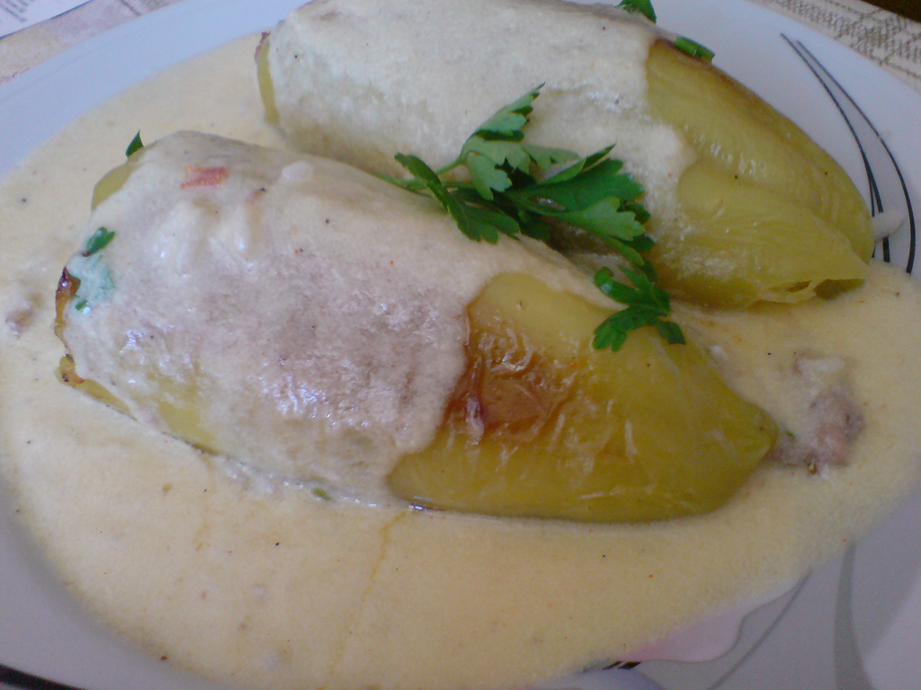 Stuffed Peppers